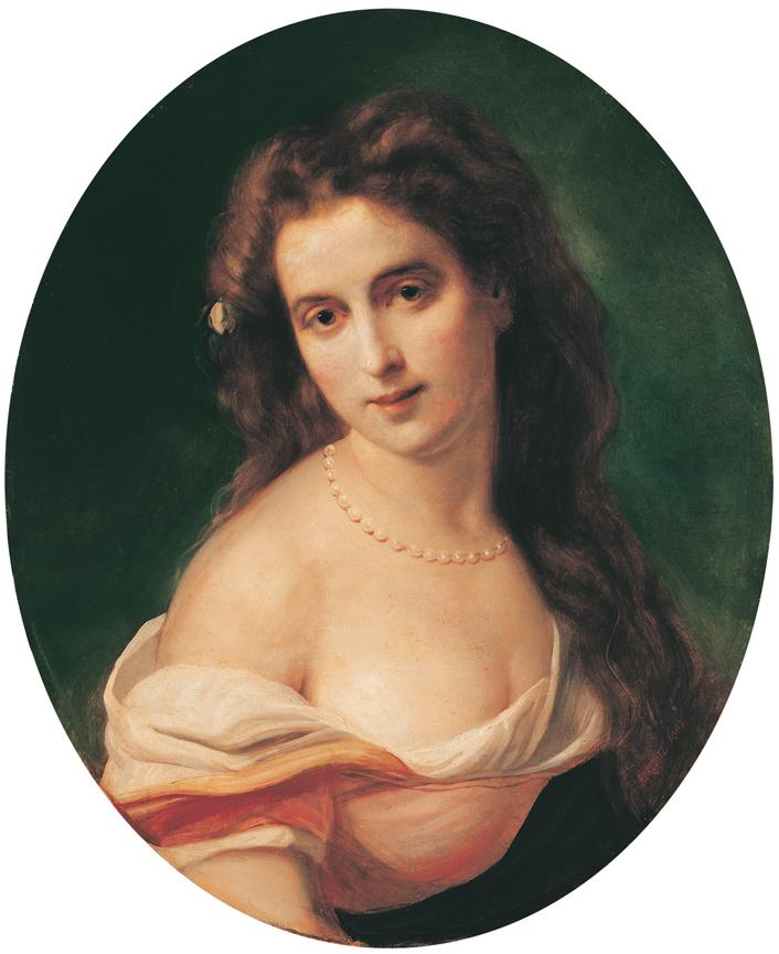 Leopold Horovitz is an alternate name for Lipót Horovitz